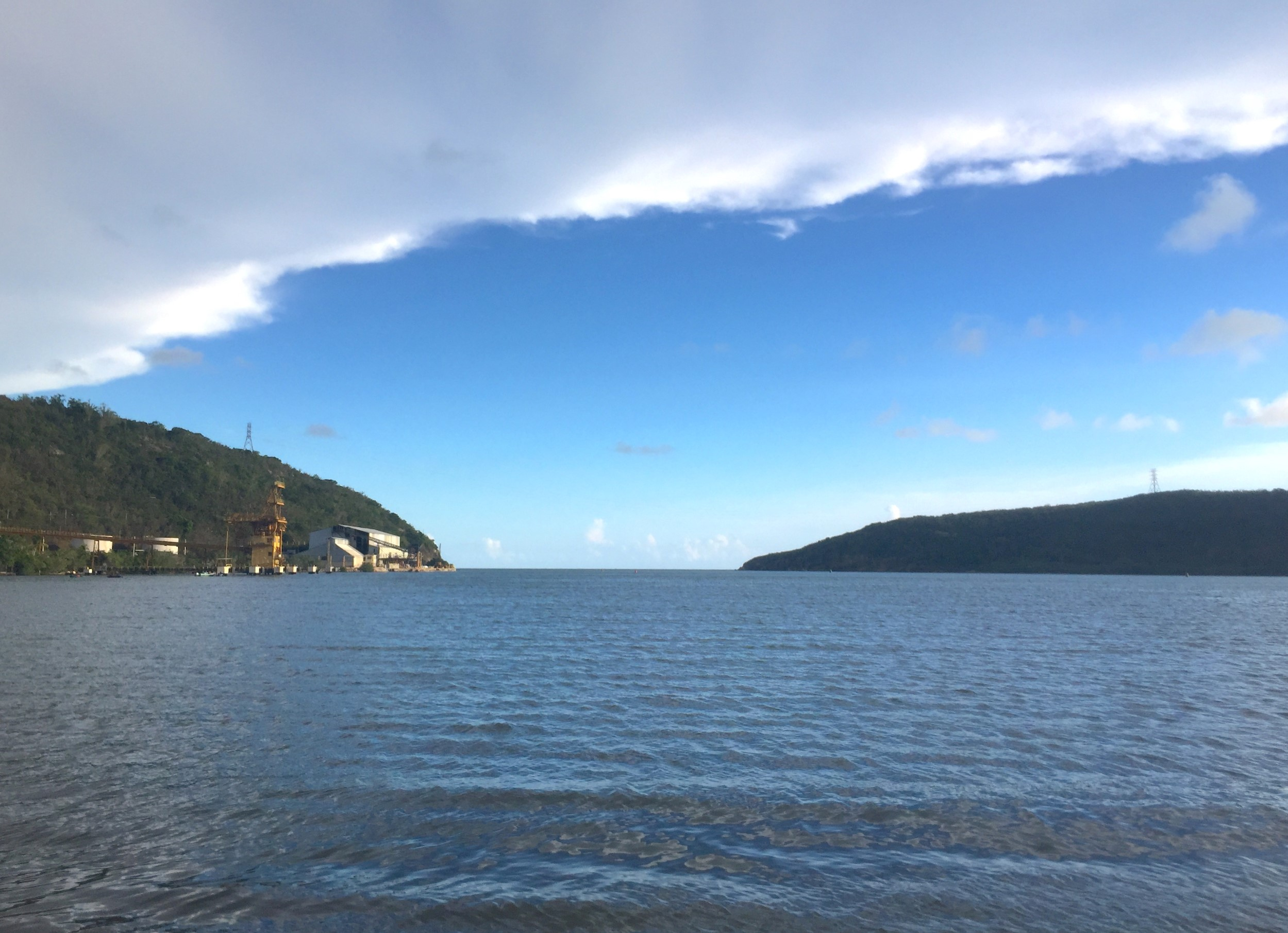 Bahía de Guánica, Puerto Ricoː view of the entrance from the waterfront